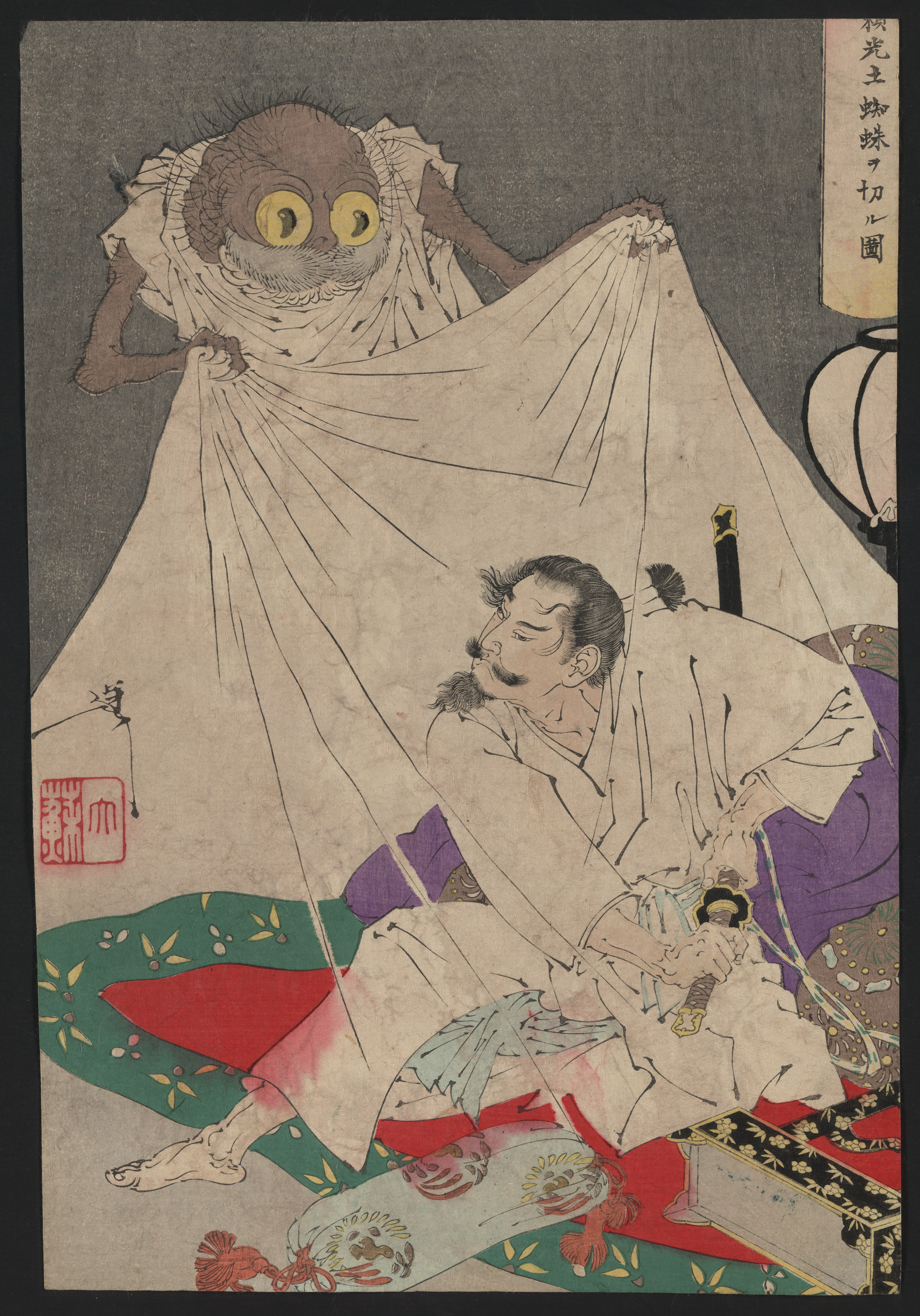 Title: Tsuchigumo Abstract/medium: 1 print : woodcut, color ; 31 x 20.8 cm.